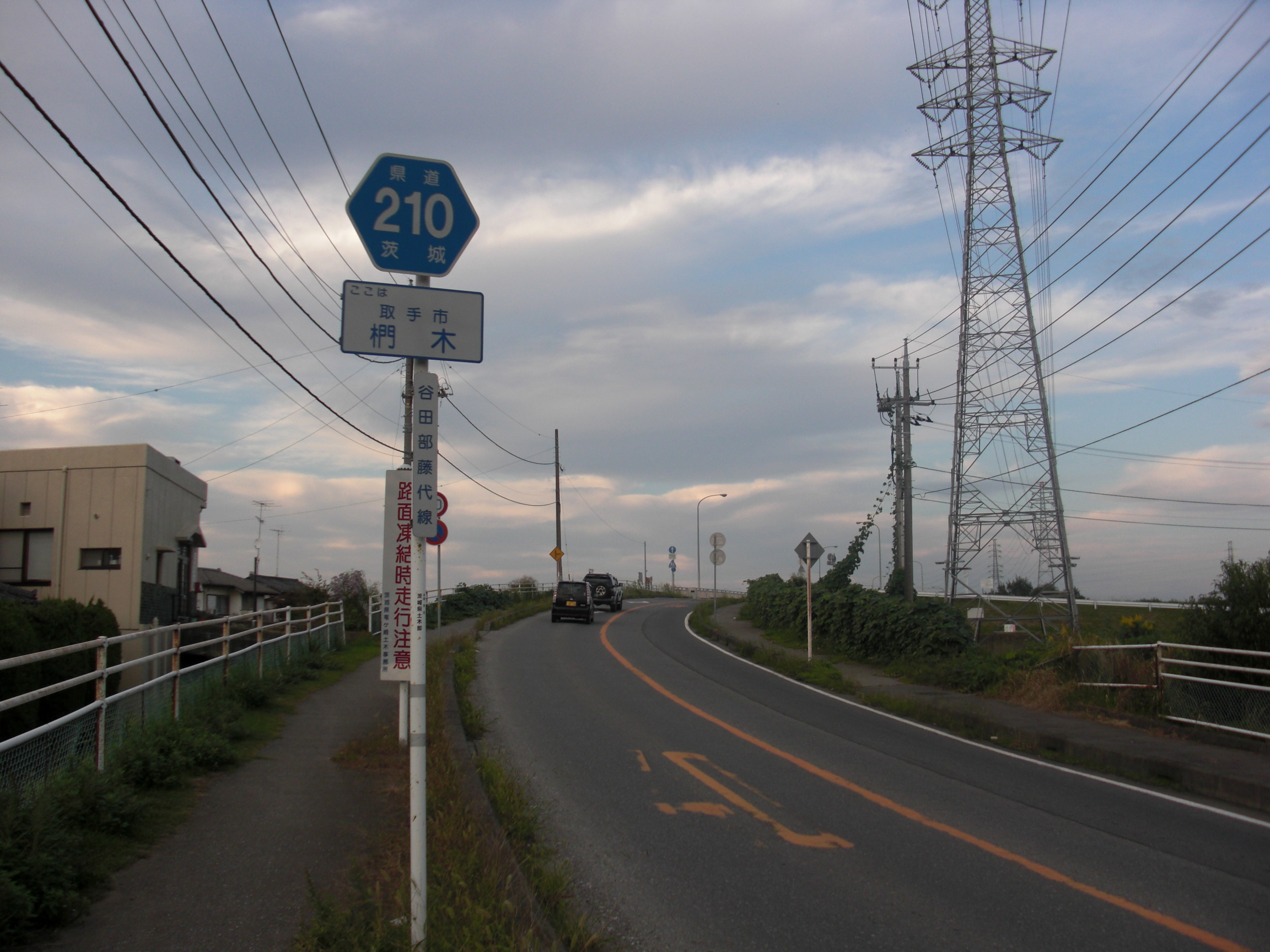 This is a landscape of Ibaraki prefectural road No. 210 Yatabe Fujishiro line at Kunugi, Toride, Japan.